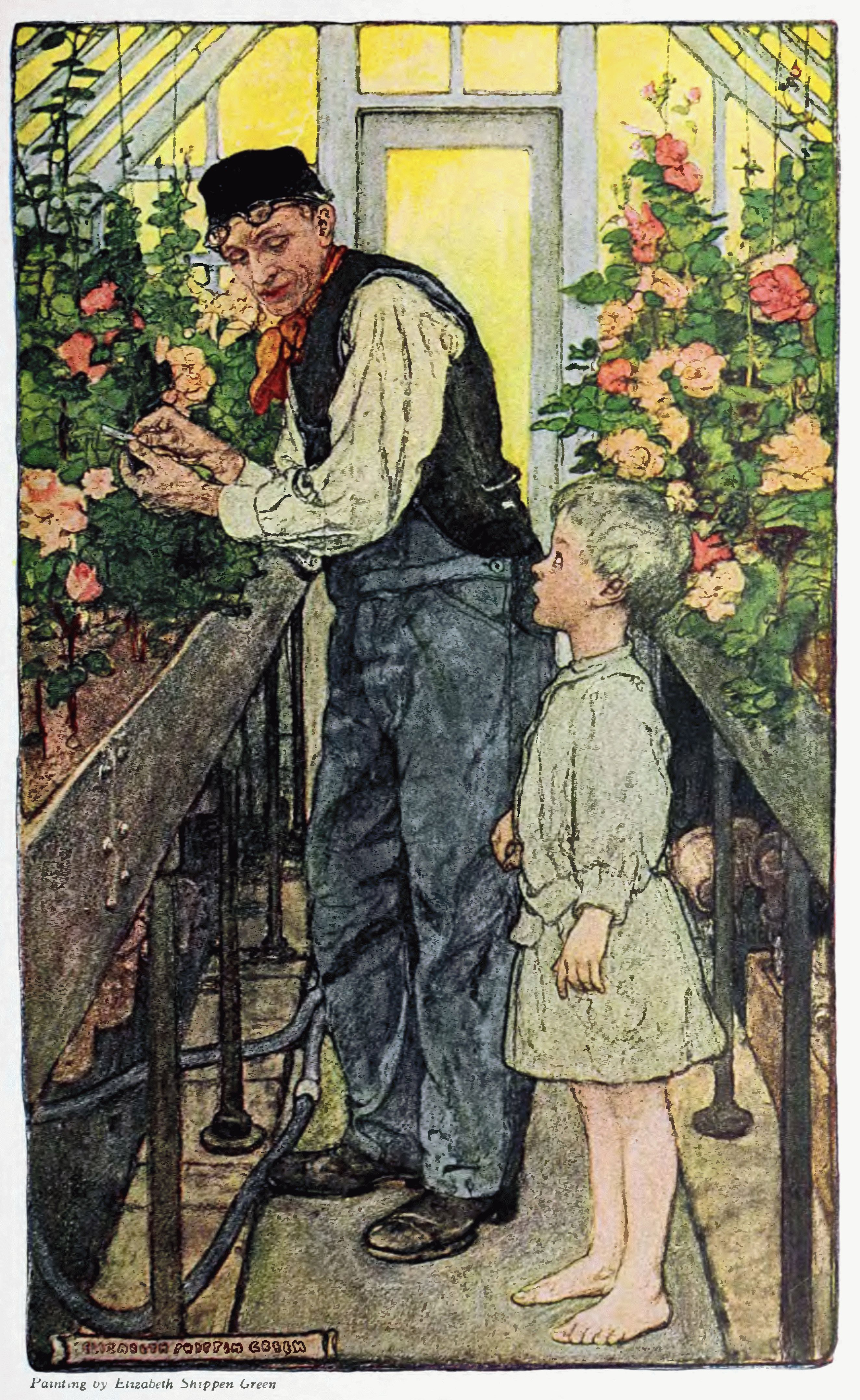 Page 328, Harper's Magazine, 1908--Extract of illustration from scan of story "The flowers" by Margarita Spalding Gerry. Illustration by Elizabeth Shippen Green. ["What is it sonny?" asked the florist]